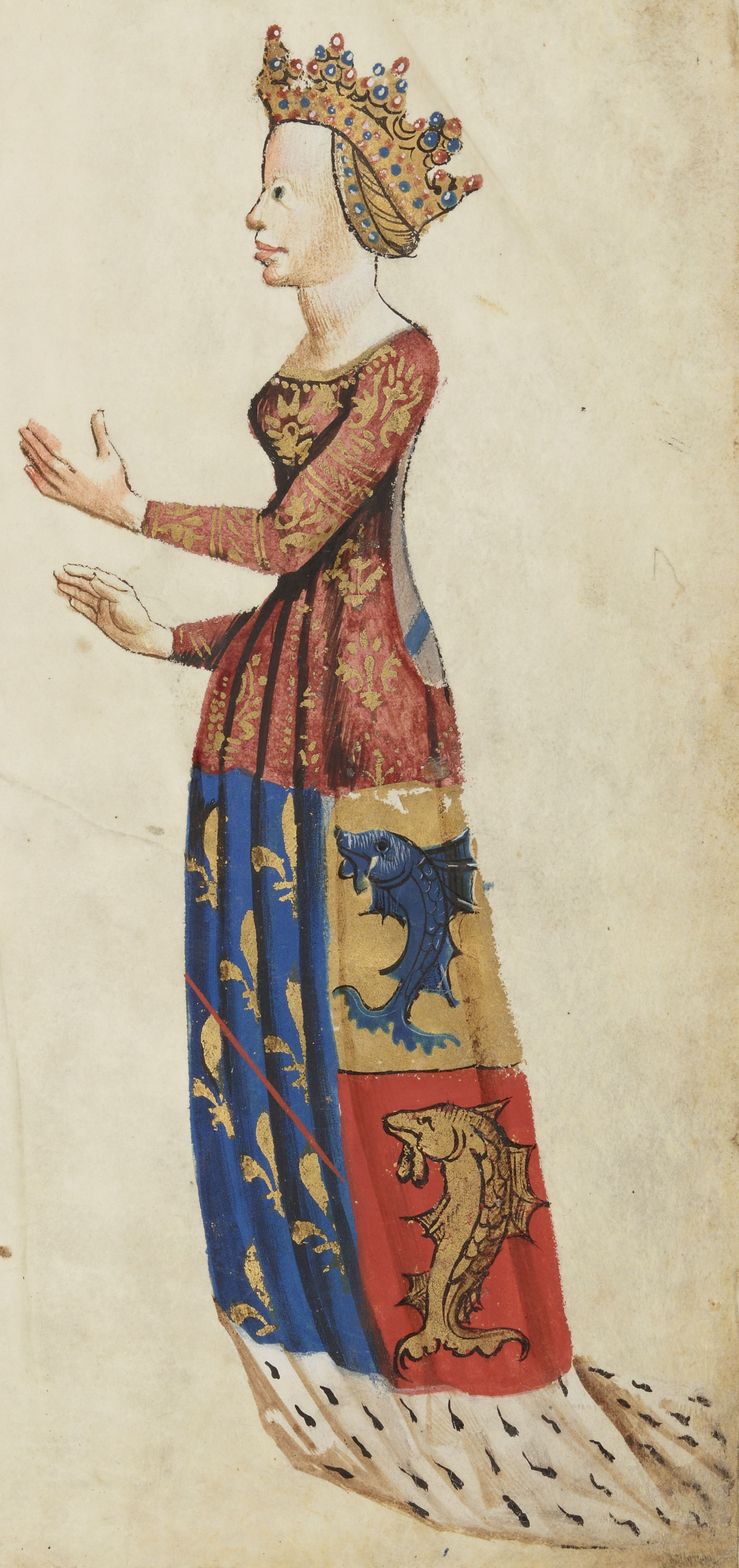 Anna of Auvergne, wife of Louis II, Duke of Bourbon.